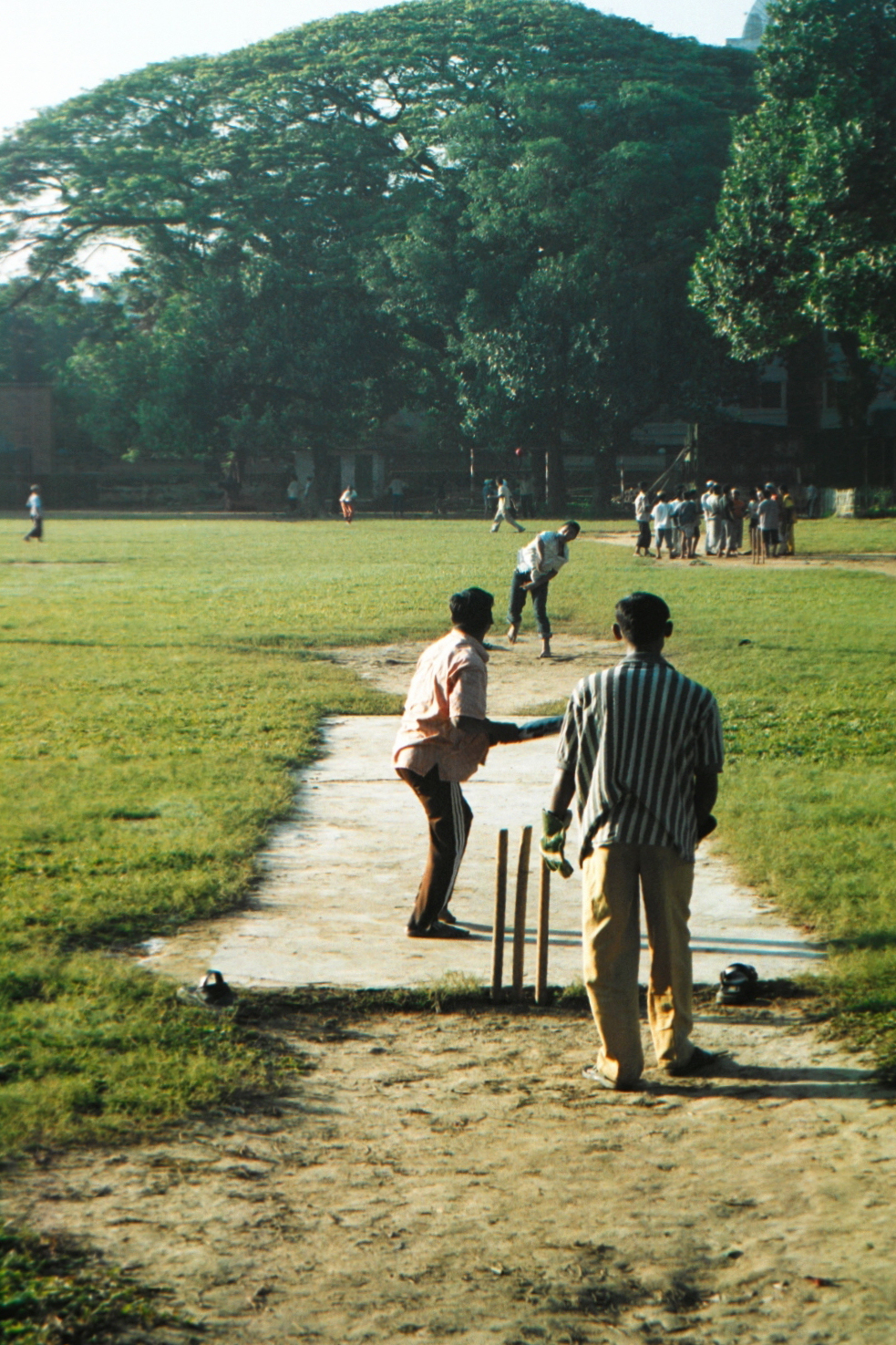 Bangladeshis playing cricket in a park.